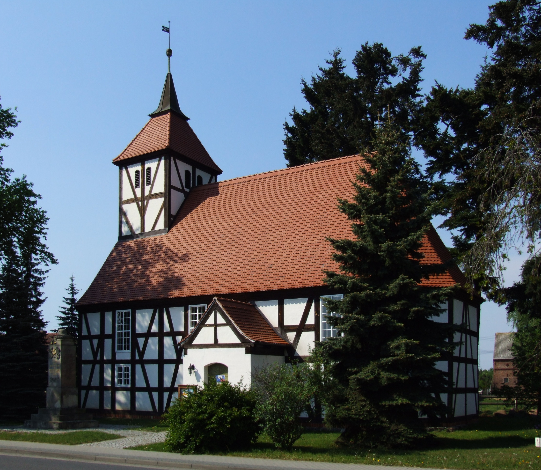 Motorway church in Duben, Luckau